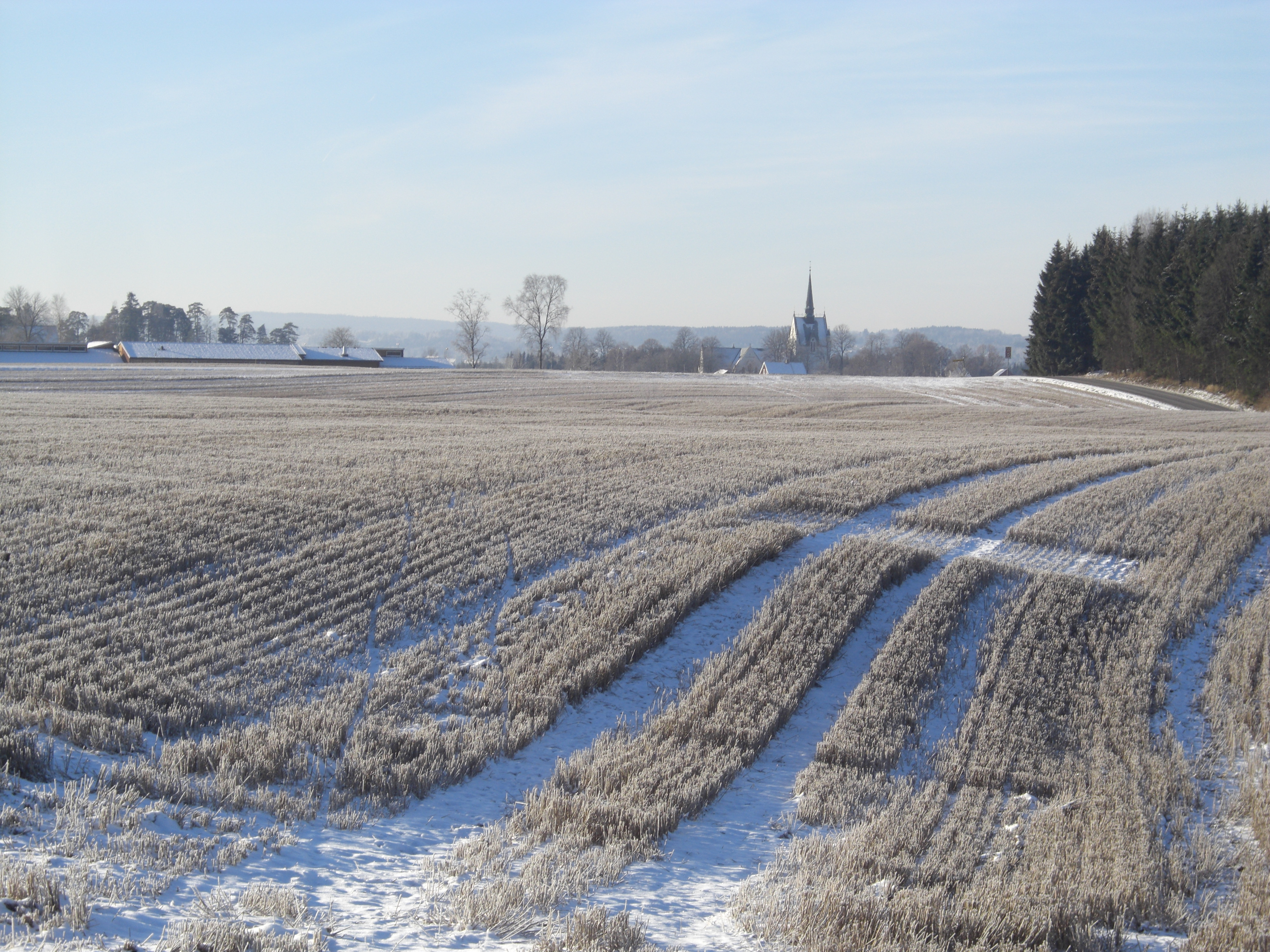 Eidsberg winter